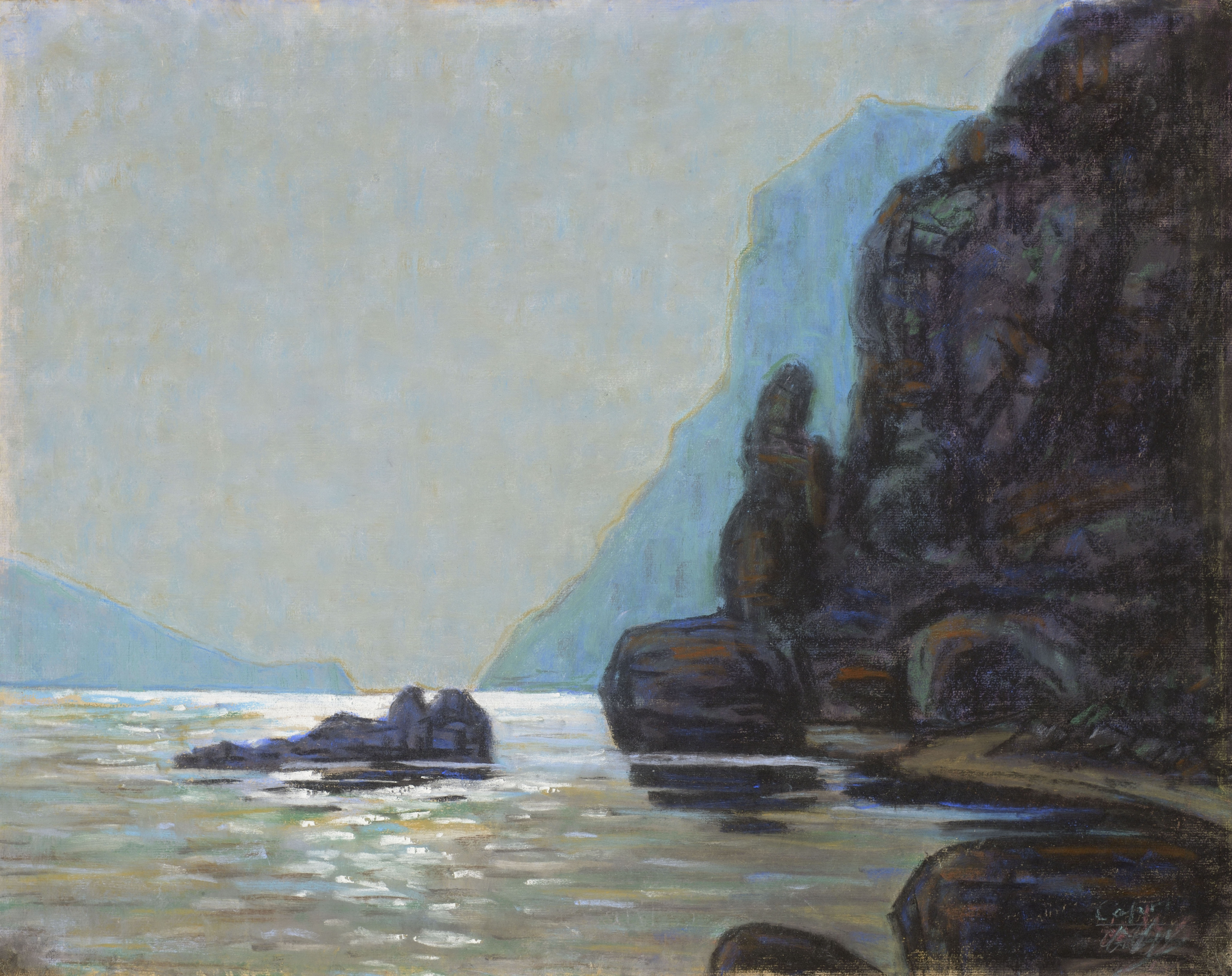 Ants Laikmaa "View from Capri" 1911–1912; pastel/paper; small version 46.0 x 56.0 cm.